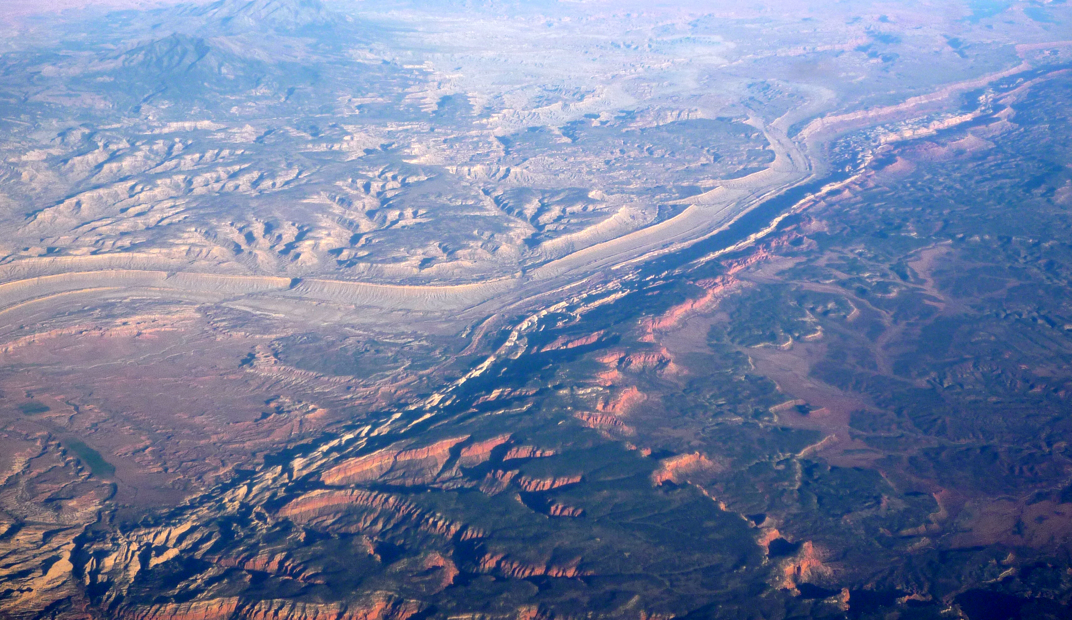 Aerial photo of Waterpocket Fold in Capitol Reef National Park. (View southwest: overlooking east perimeter of Boulder Mountain (Utah), at the Waterpocket Fold; Henry Mountains, north, and northwest face, at photo-upper-left.)